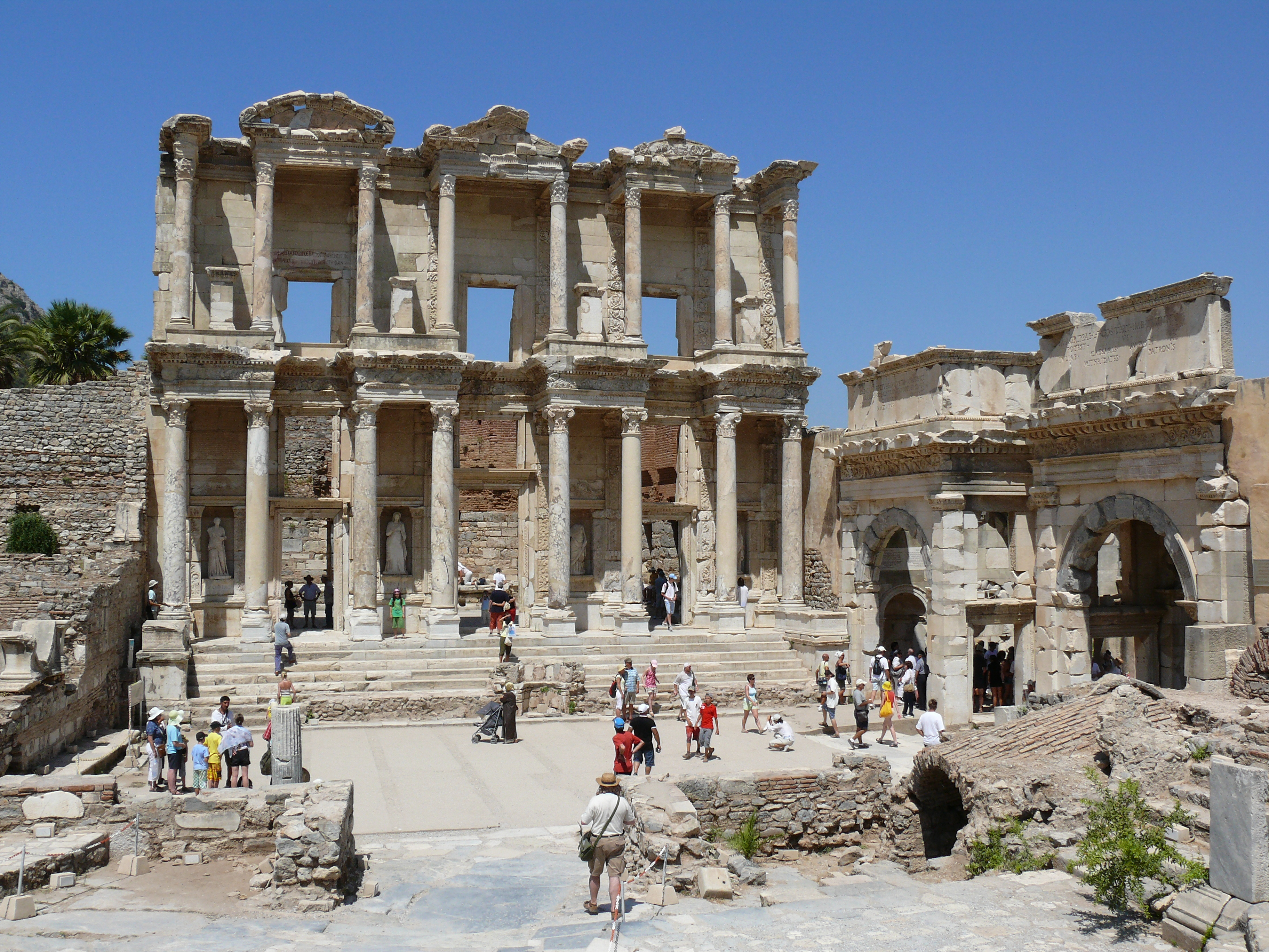 Library of Celsus at Ephesus. The library was built to store 12,000 scrolls and to serve as a monumental tomb for Celsus.